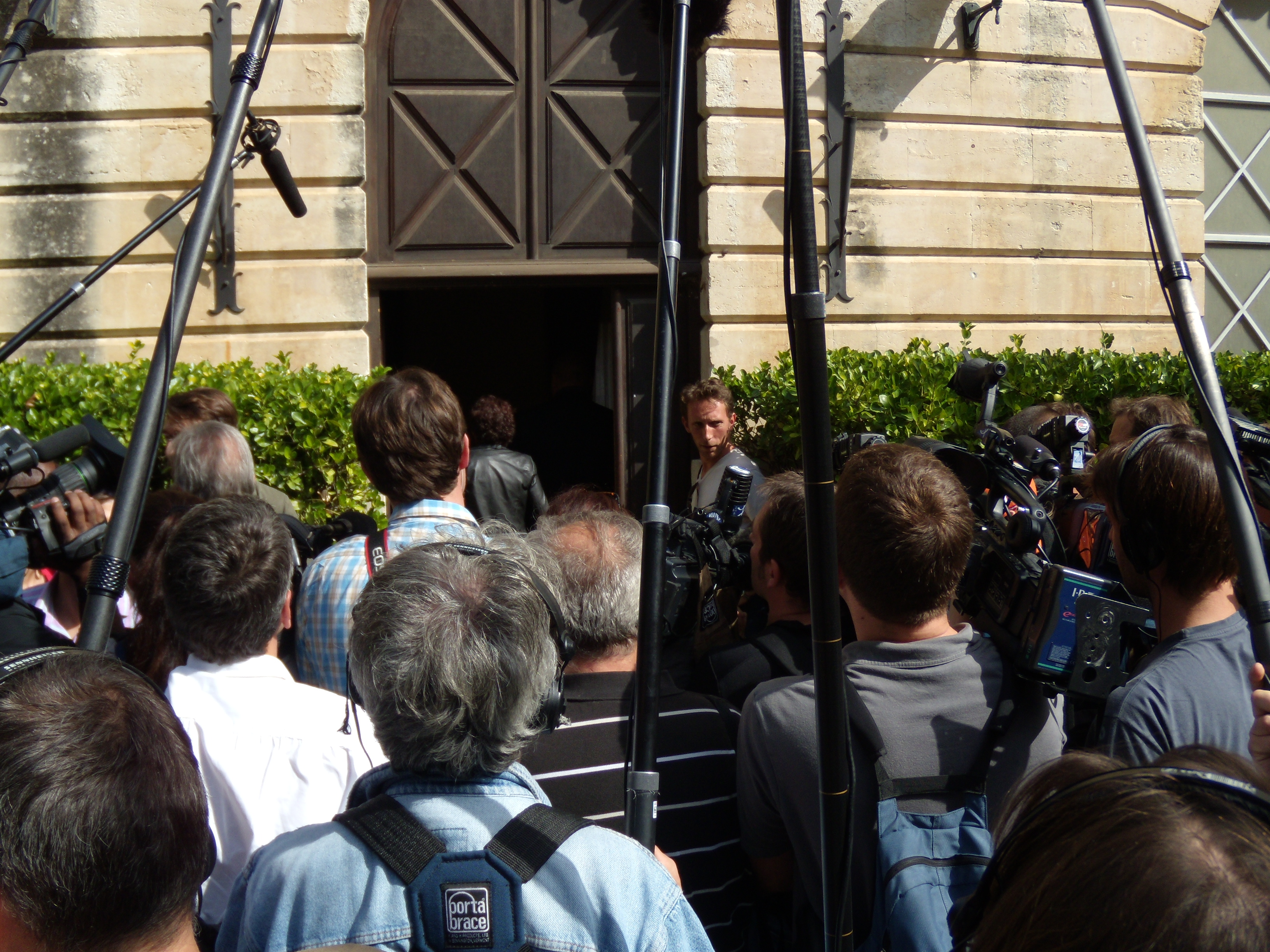 During the Fête de la fraternité at Montpellier in september 2009.